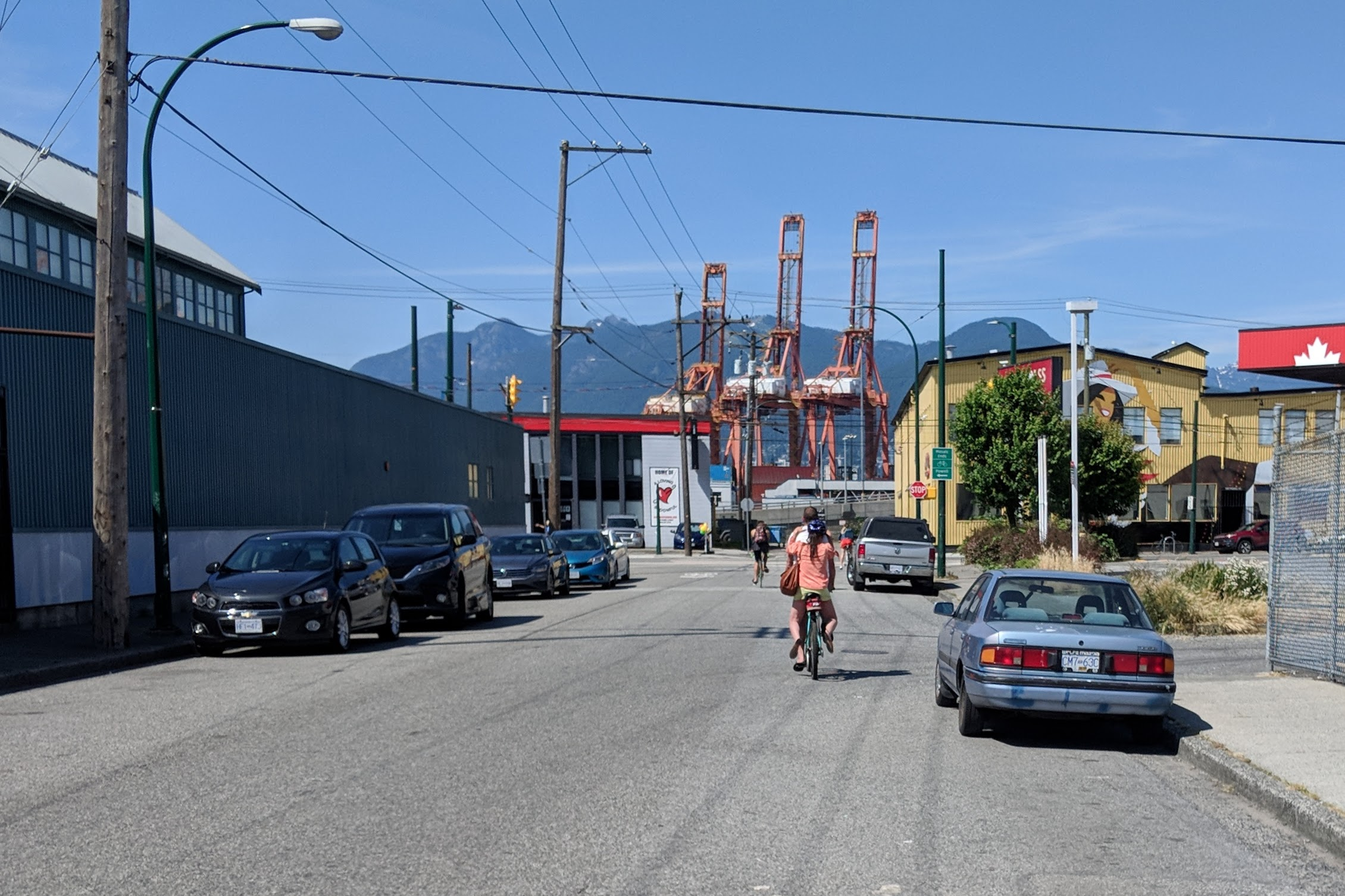 Grandview–Woodland neighbourhood of Vancouver, Canada near the Port of Vancouver. June 2019.